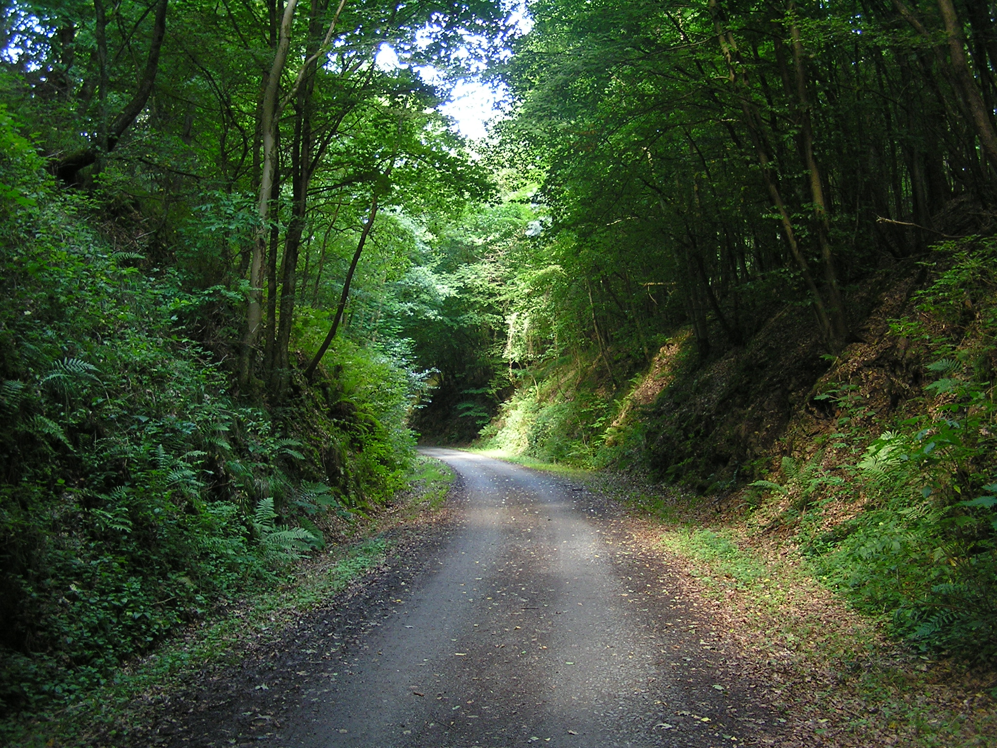 Between Weilmünster-Essershausen and Weinbach-Freienfels it is clearly visible that the Weiltalweg (Weil river way) was a railway in former times.